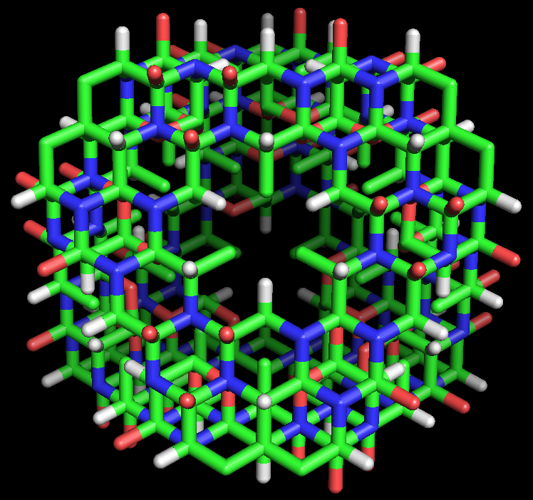 "Stick" image of the cyclol C1 model of a globular protein, as proposed by Dorothy Maud Wrinch in 1937 (Nature, 139, 972-973). This molecule is a truncated tetrahedron, and is viewed here "face-on", looking into a "lacuna" of the cyclol fabric. The PDB file was constructed by me using my own software and visualized using PyMol; both were done on 31 October 2006. I hereby release this image under the GFDL.